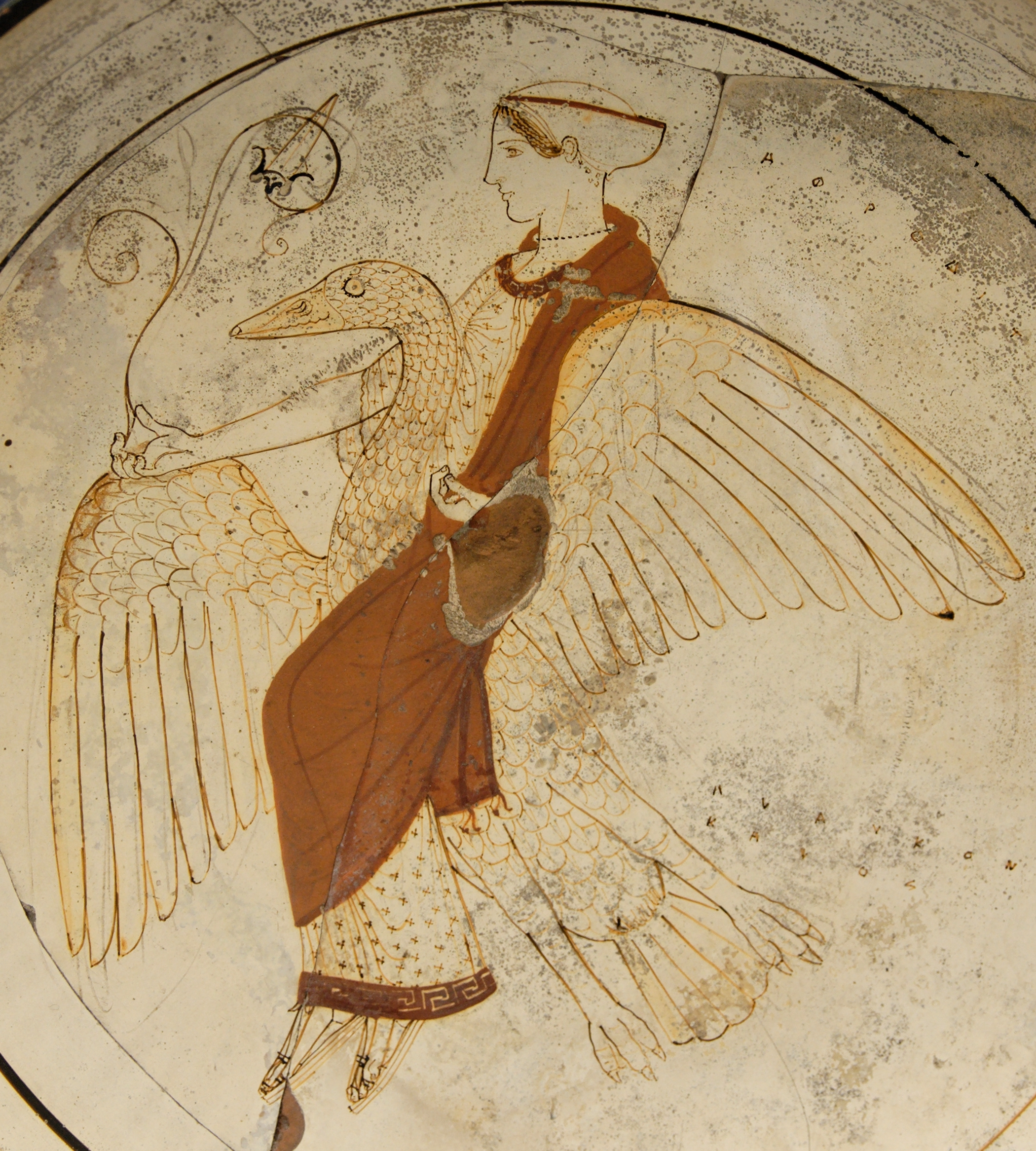 Aphrodite on a swan. Tondo from an Attic white-ground red-figured kylix. From tomb F43 in Kameiros (Rhodes).